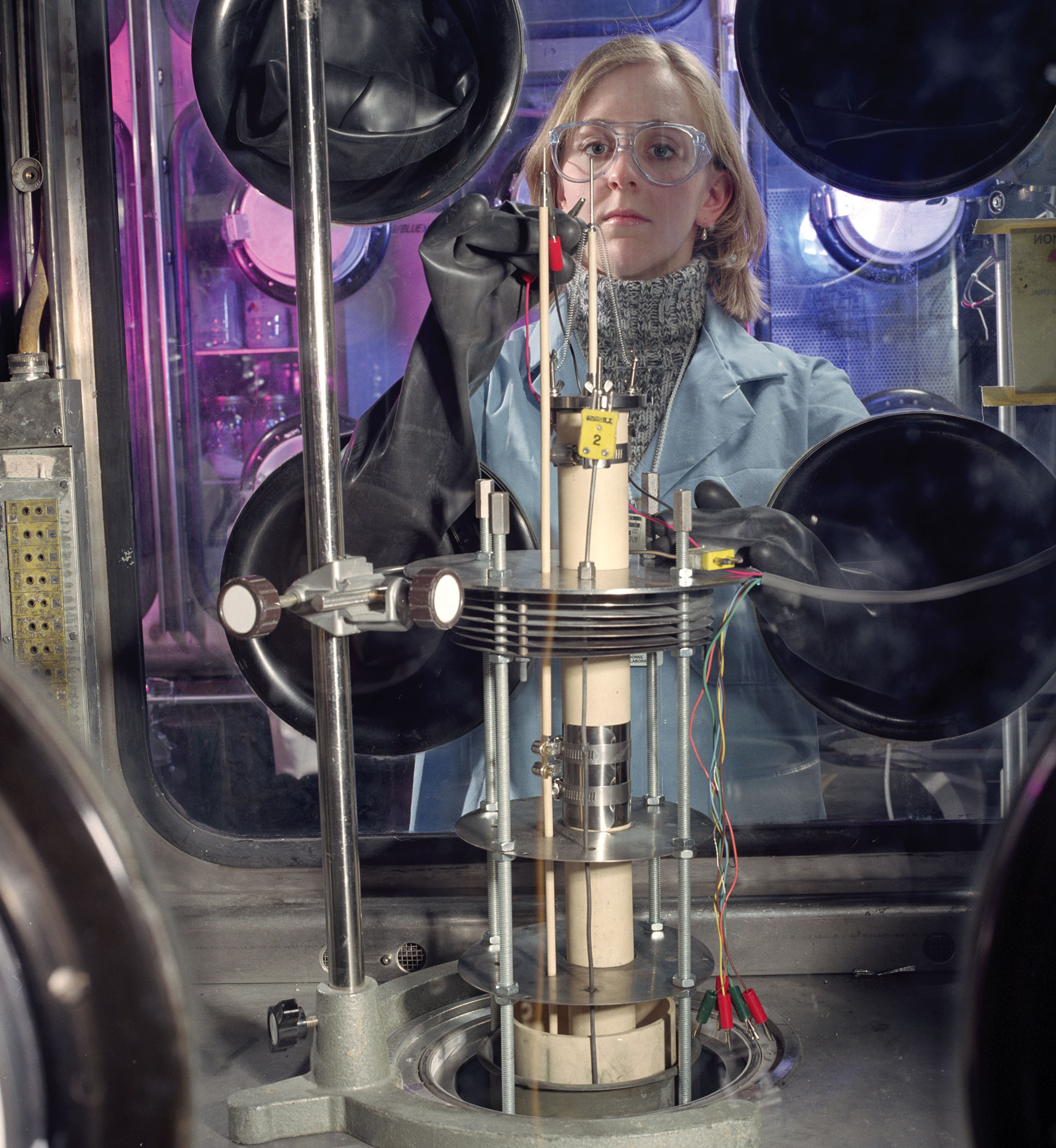 Electrorefining technology Argonne has developed a revolutionary process that in one step converts spent commercial nuclear fuel, which is a ceramic oxide, into metal. The product can then be treated with Argonne's electrorefining technology to recover the uranium and transuranic elements for recycling into new fuel. Argonne chemist Laurel Barnes prepares for a test of the metal-oxide conversion process in a glove box. Argonne National Laboratory photo.